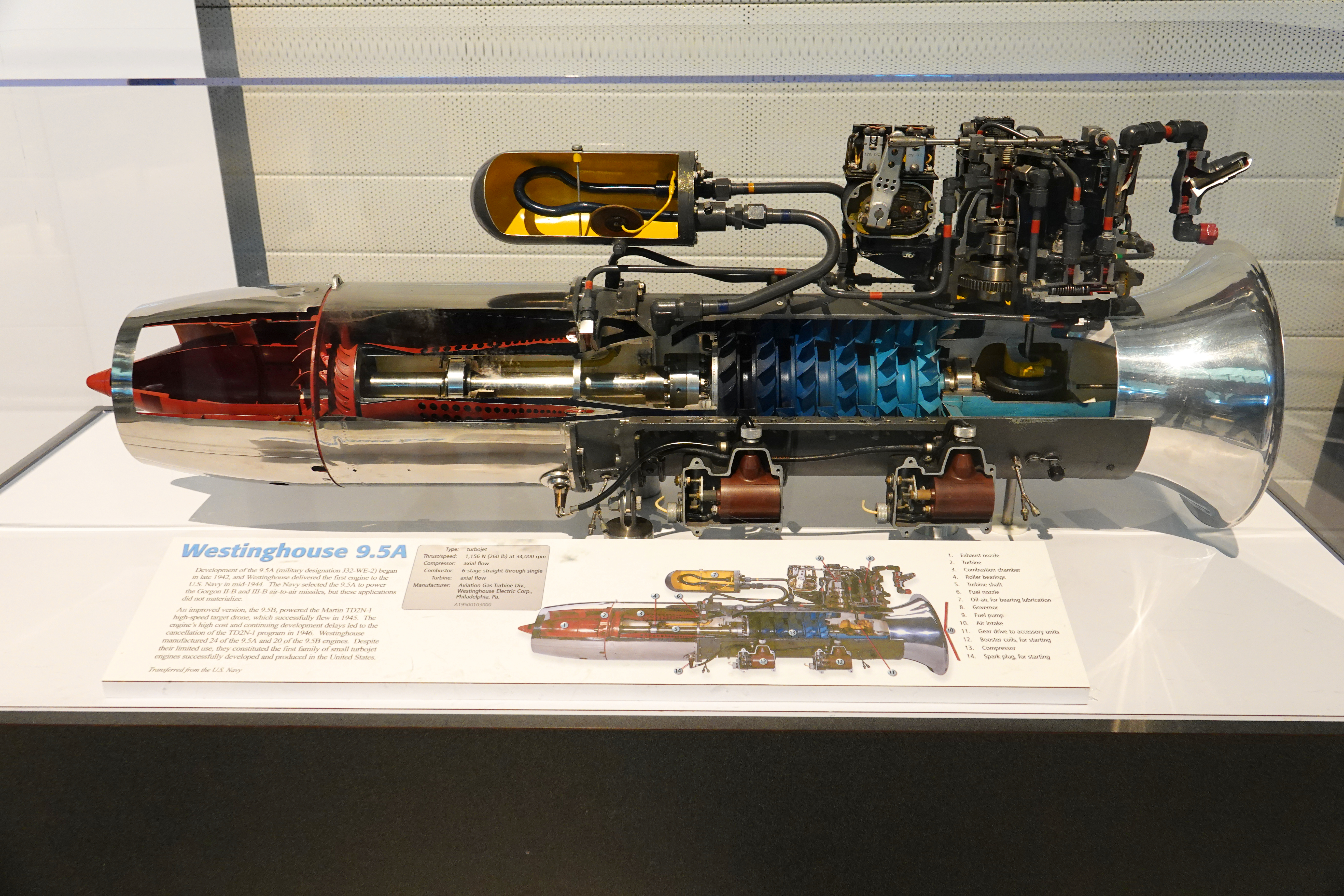 Development of the 9.5A (military designation J32-WE-2) began in late 1942, and Westinghouse delivered the first engine to the U.S. Navy in mid-1944. The Navy selected the 9.5A to power the Gorgon II-B and III-B air-to-air missiles, but these applications did not materialize. An improved version, the 9.5B, powered the Martin TD2N-1 high-speed target drone, which successfully flew in 1945. The engine's high cost and continuing development delays led to the cancellation of the TD2N-1 program in 1946. Westinghouse manufactured 24 of the 9.5A and 20 of the 9.5B engines. Despite their limited use, they constituted the first family of small turbojet engines successfully developed and produced in the United States. Picture taken at the National Air and Space Museum's Steven F. Udvar-Hazy Center in Chantilly, Virginia, USA. Type: Turbojet Thrust: 1,156 N (260 lb) at 34,000 rpm Compressor: 6-stage axial Combustor: Annular Turbine: Single-stage axial Weight: 63.5 kg (140 lb)